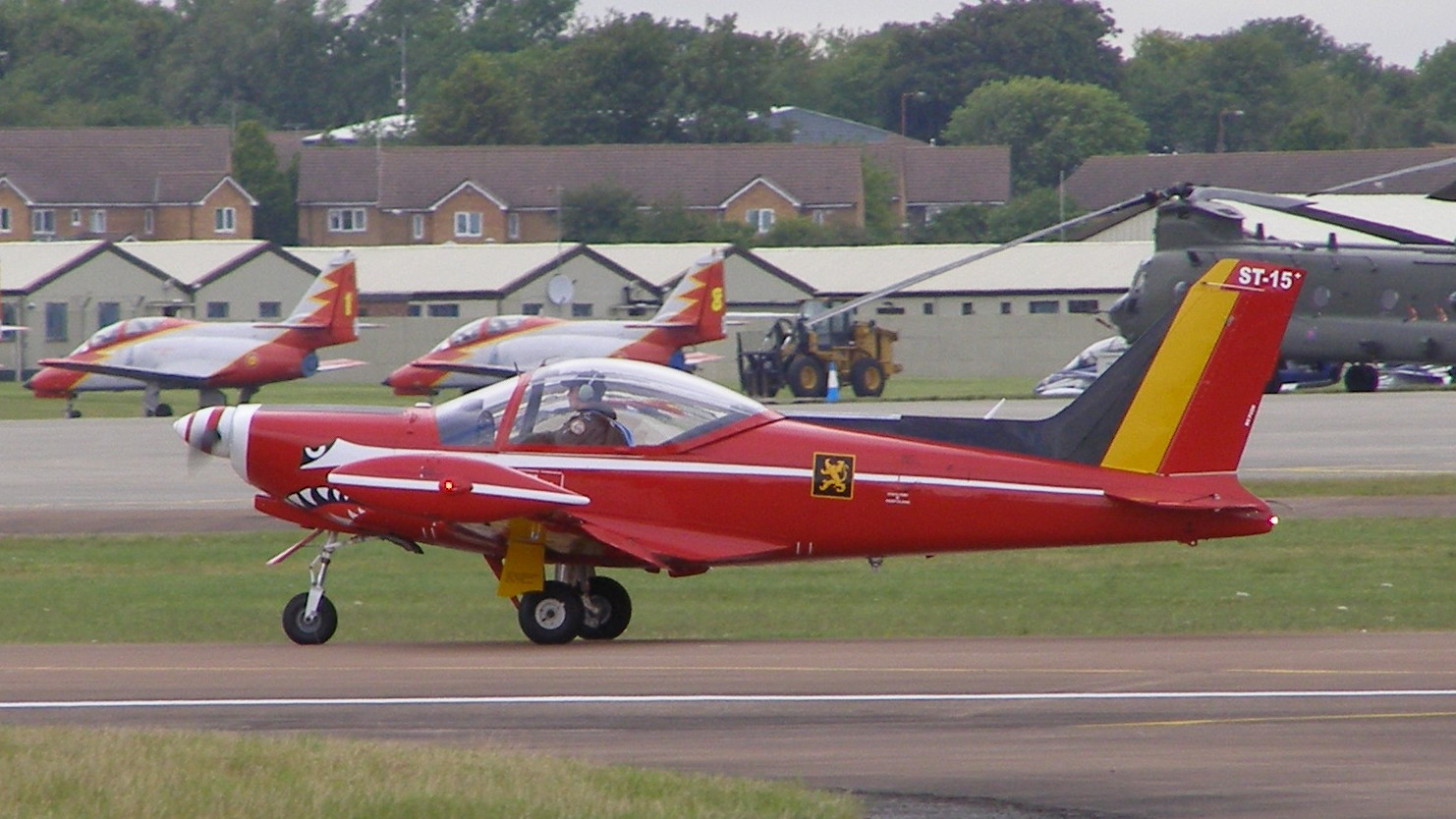 Belgian military SIAI-Marchetti SF.260 basic trainer (serial number ST-15) waiting to depart from Royal Air Force Fairford following the Royal International Air Tattoo 2011.